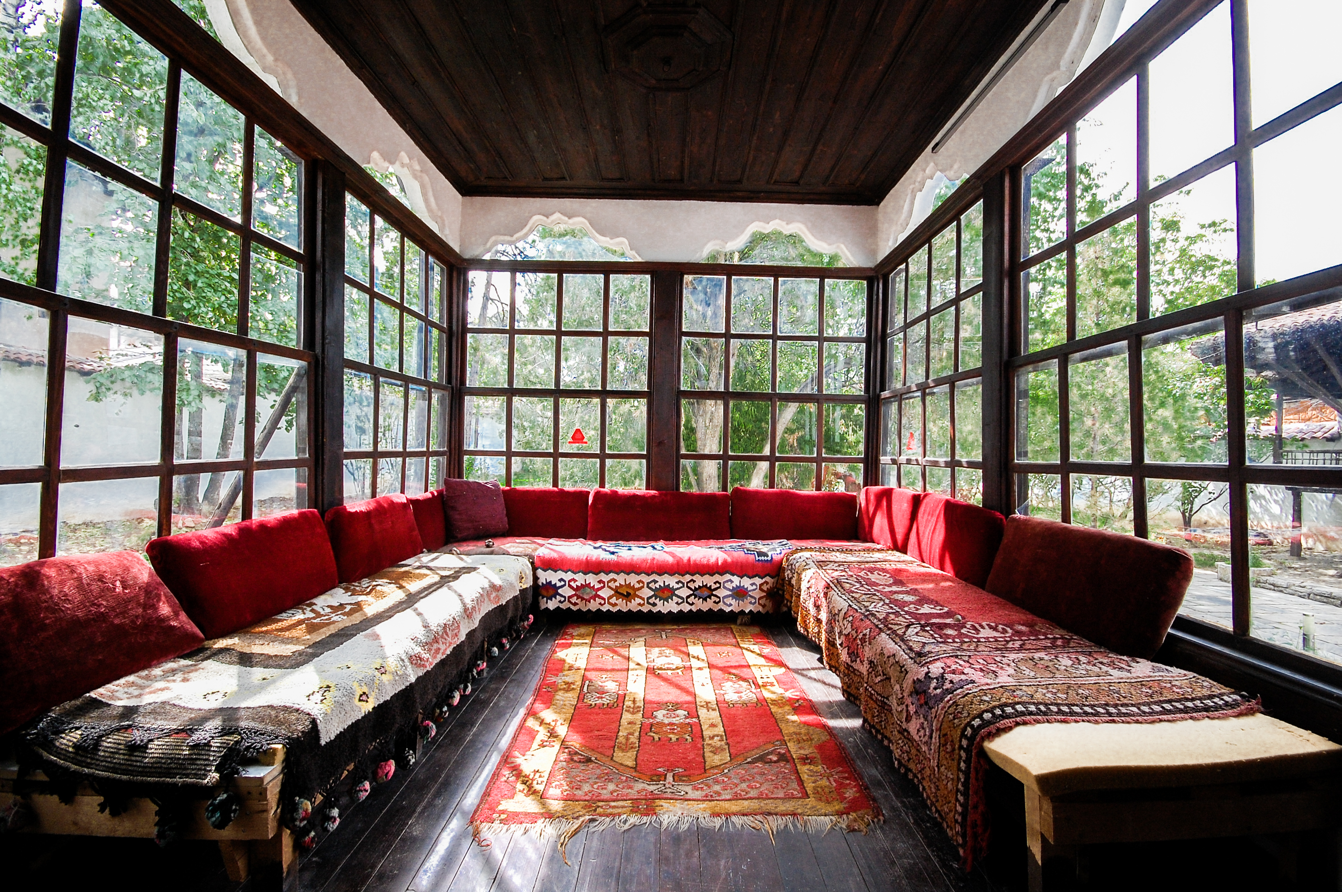 Ethnographic Museum in Prishtina